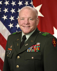 This is an official U.S. Army photo created by resources of the U.S. Government and is part of the public domain.